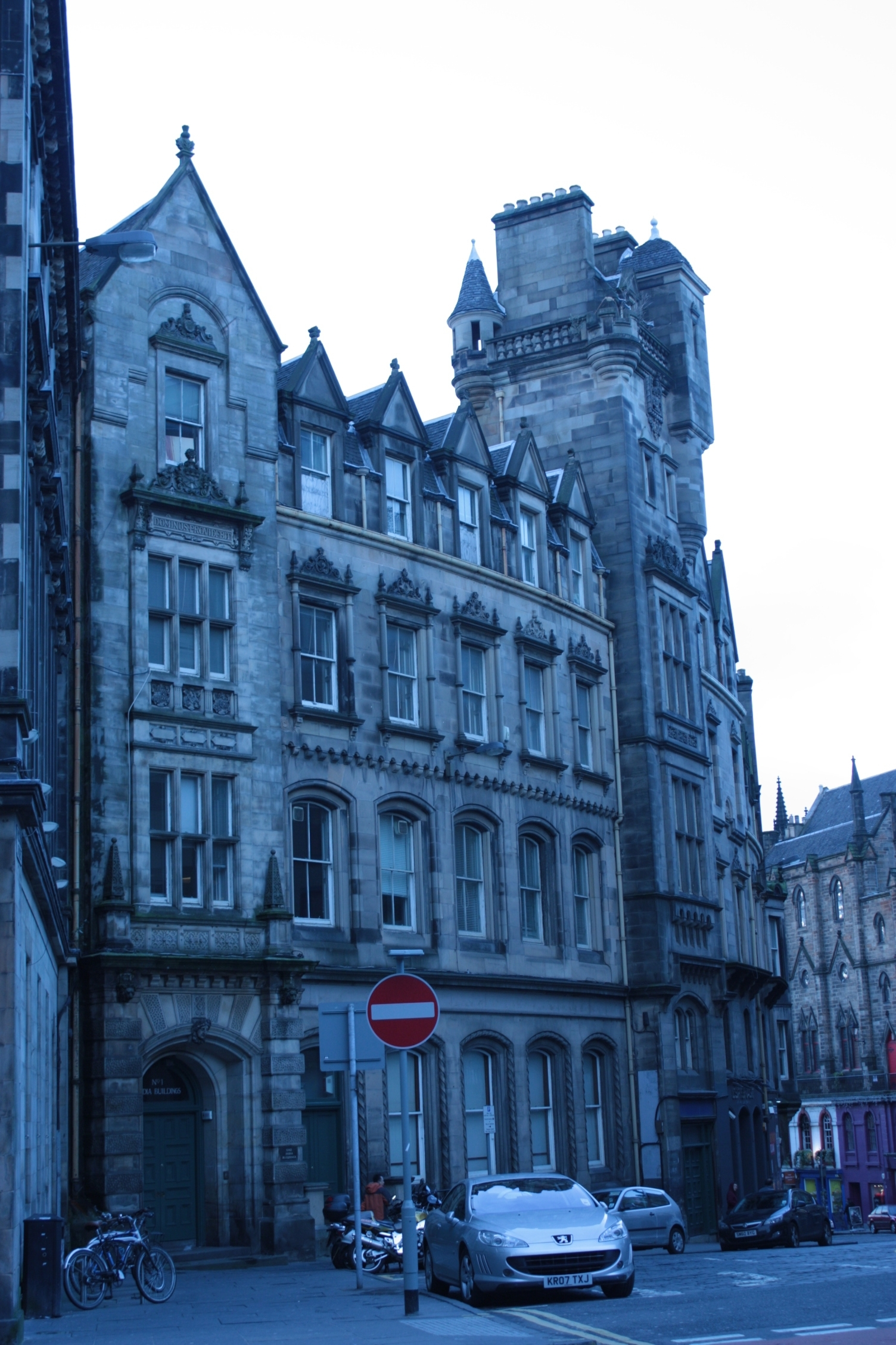 India Buildings at head of Victoria Street Edinburgh as seen from George IV Bridge